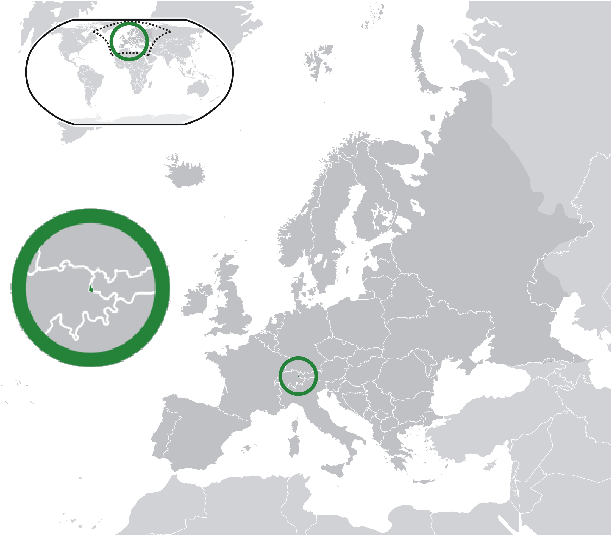 Liechtenstein (dark green) / Europe (dark grey); inspired by and consistent with general country locator maps by User:Vardion, et al - updated - wider scope, w/ Kosovo